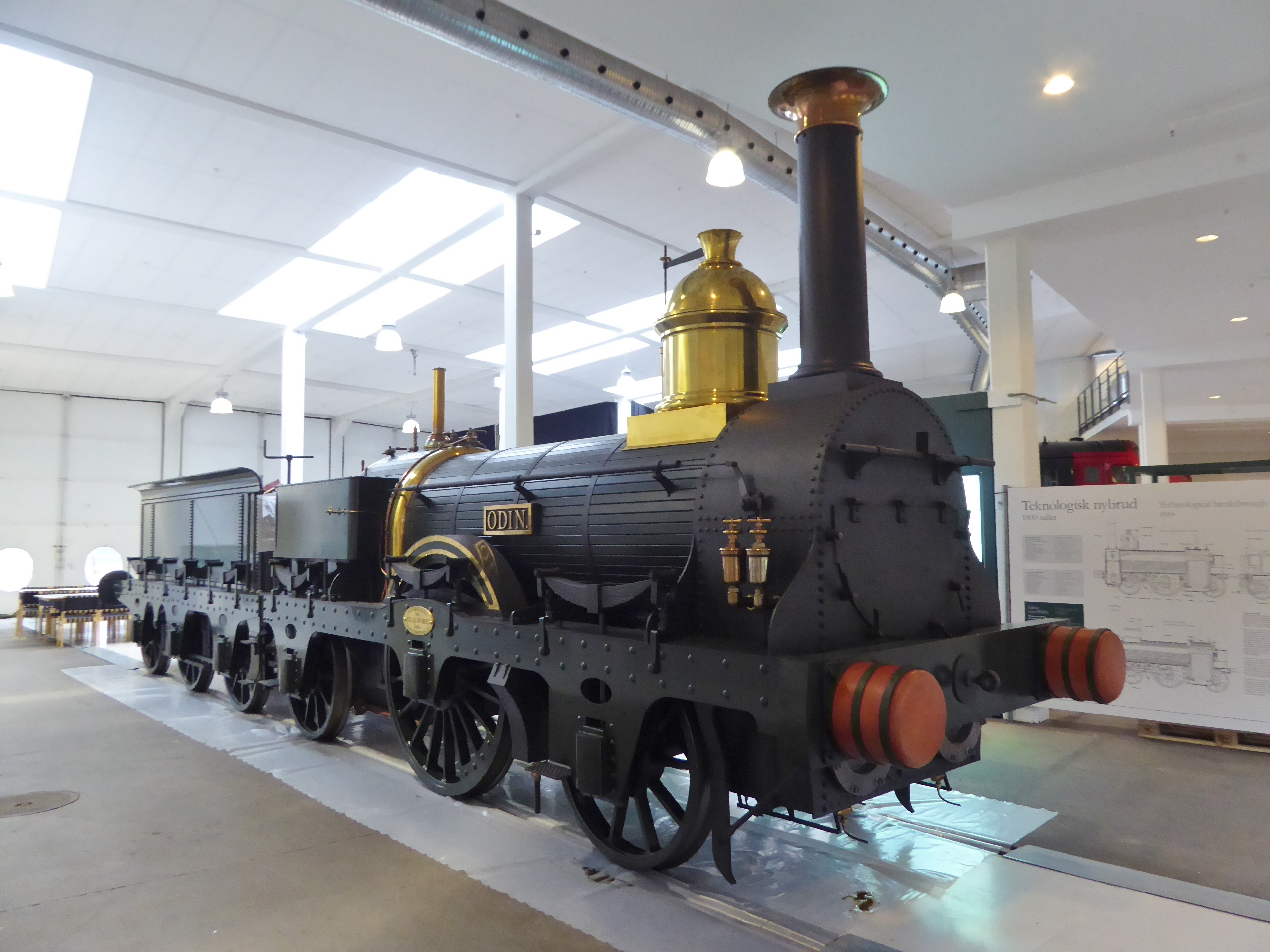 Replica of the first Danish steam locomotive, Odin, in Danmarks Jernbanemuseum in Odense. The original locomotive was build by Sharp Brothers in Manchester for Det Sjællandske Jernbaneselskab in 1846 and scrapped in 1876. The replica was build by the museum in 2005-2018.